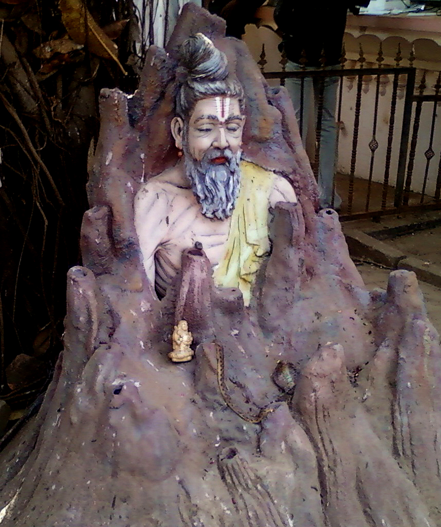 A Plaster of Paris made replica of sage Valmiki at Dwaraka Tirumala